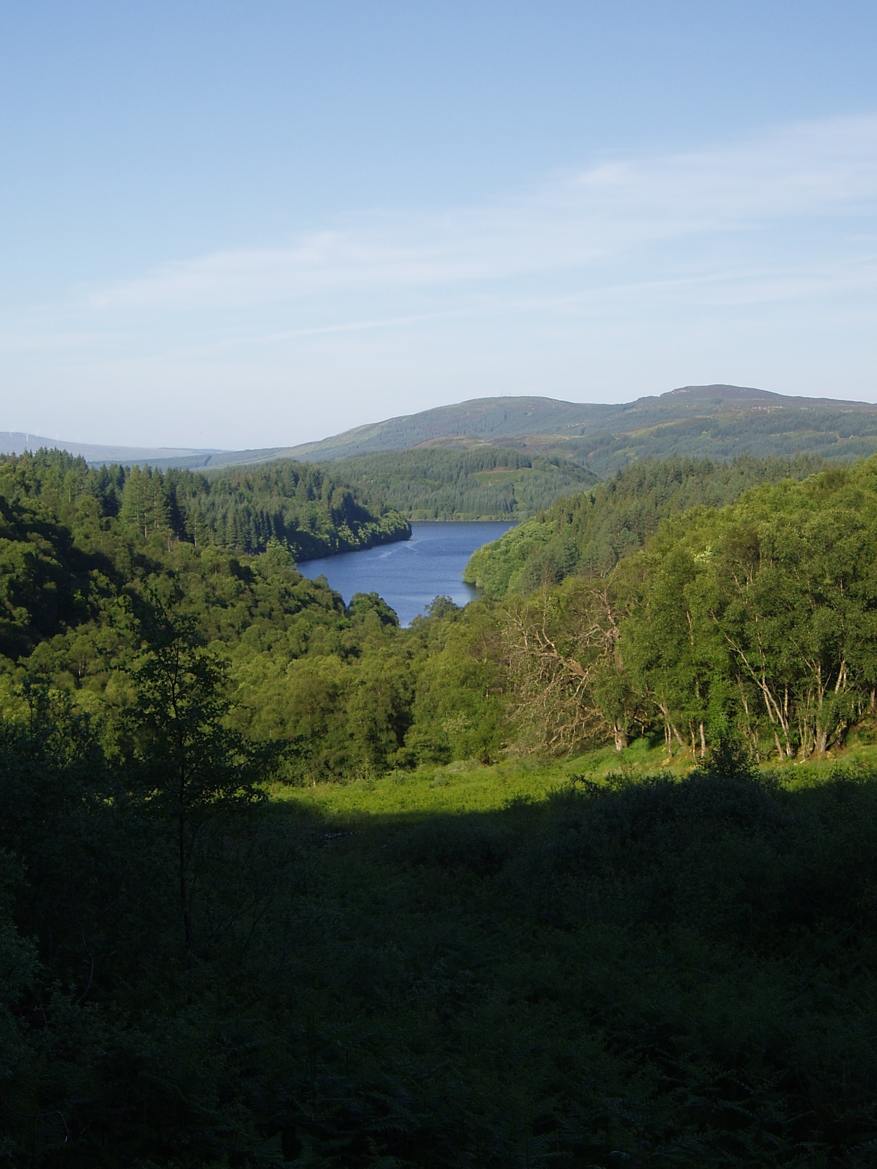 Loch Drongaidh / Loch Drunkie seen from Duke's Pass